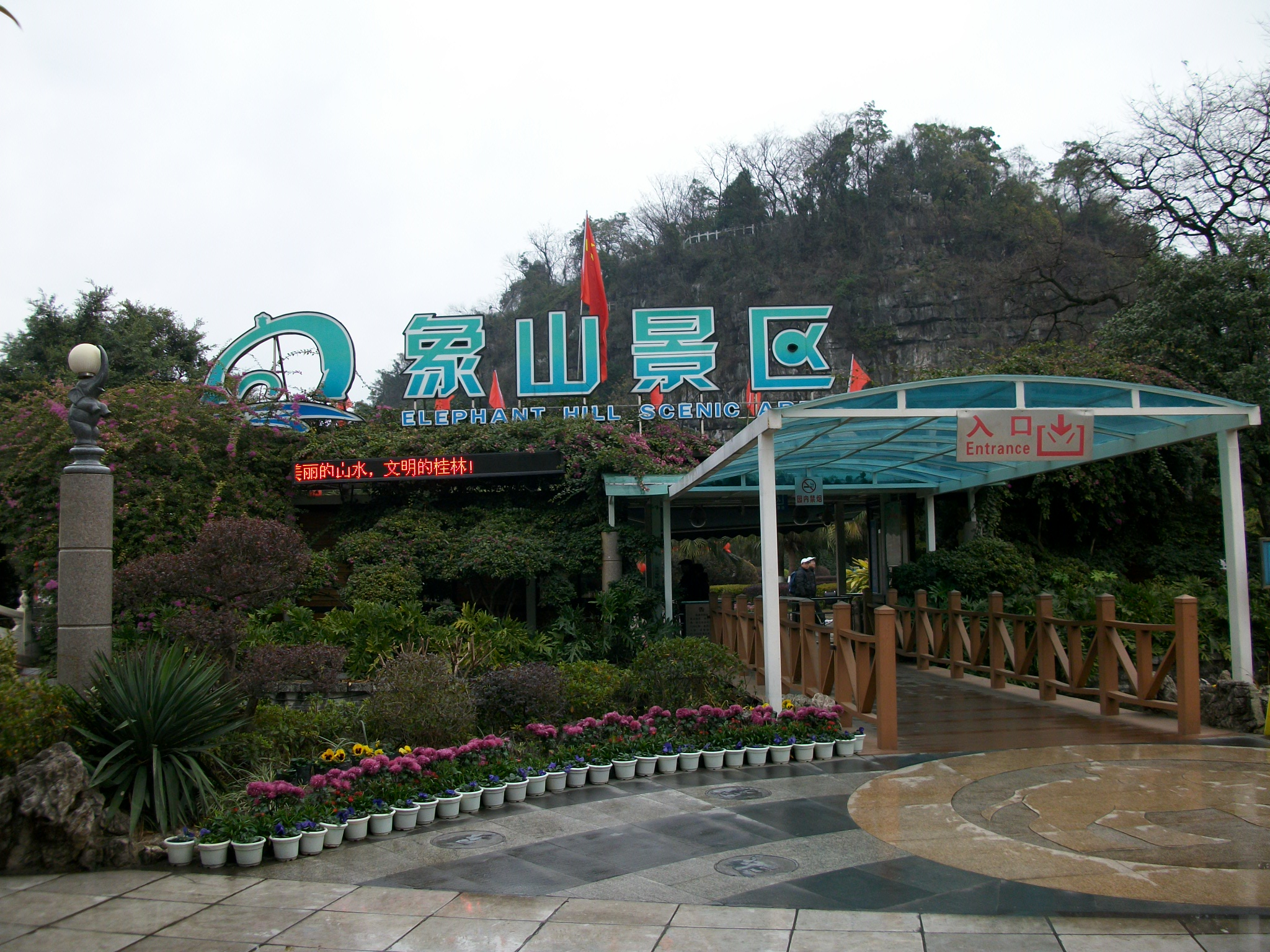 Xiangshan Scenic Area, Guilin.